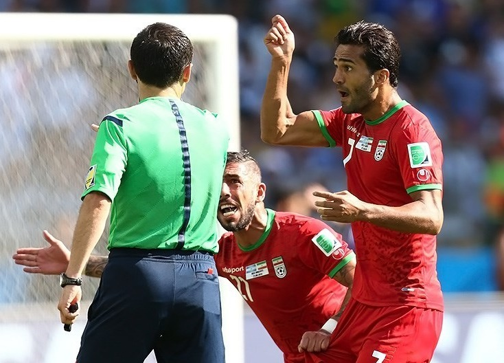 Iran and Argentina national football teams match, 2014 FIFA World Cup Group F